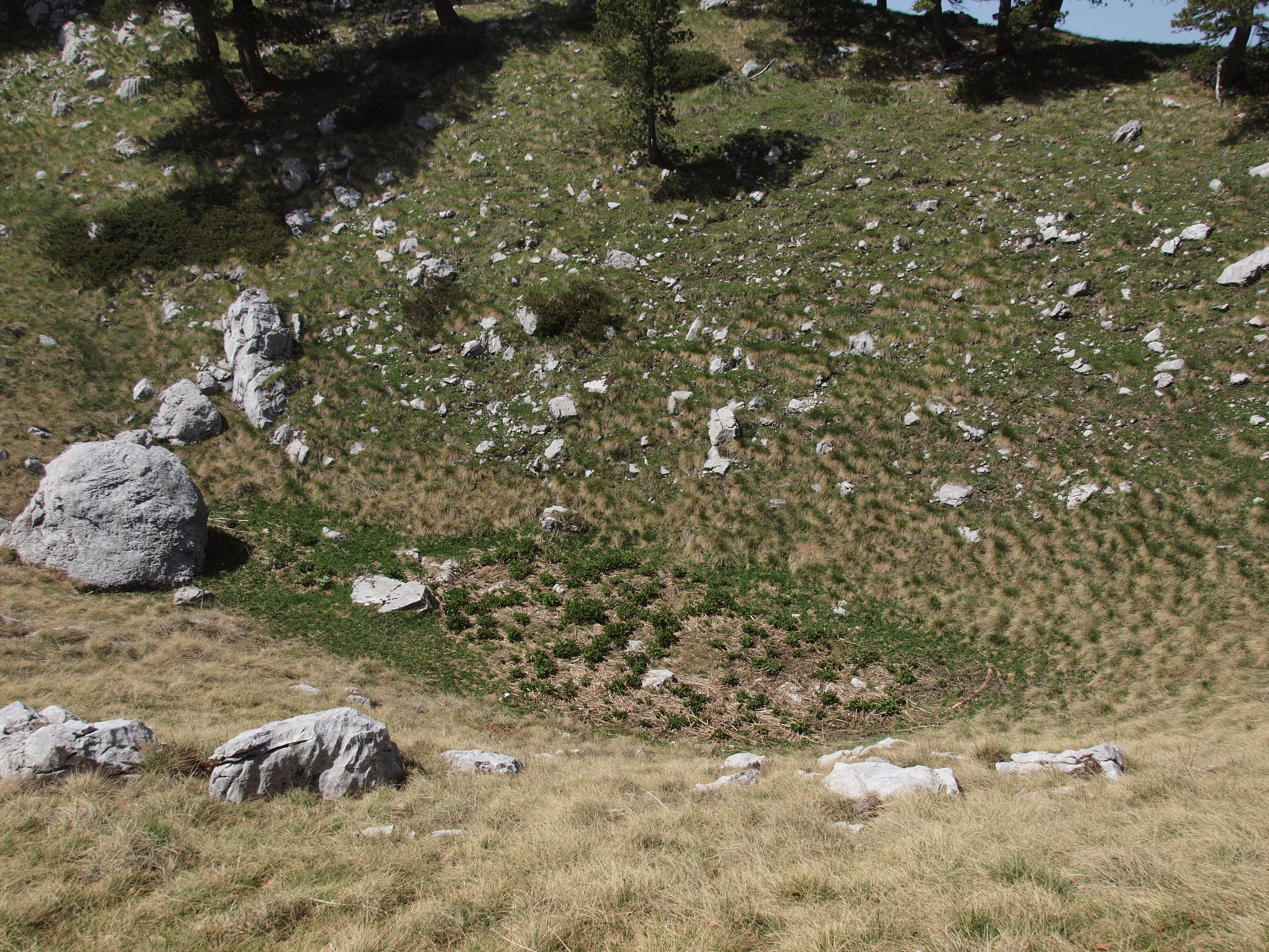 Suffosion sinkhole Dinarids Mt Orjen leg P.Cikovac